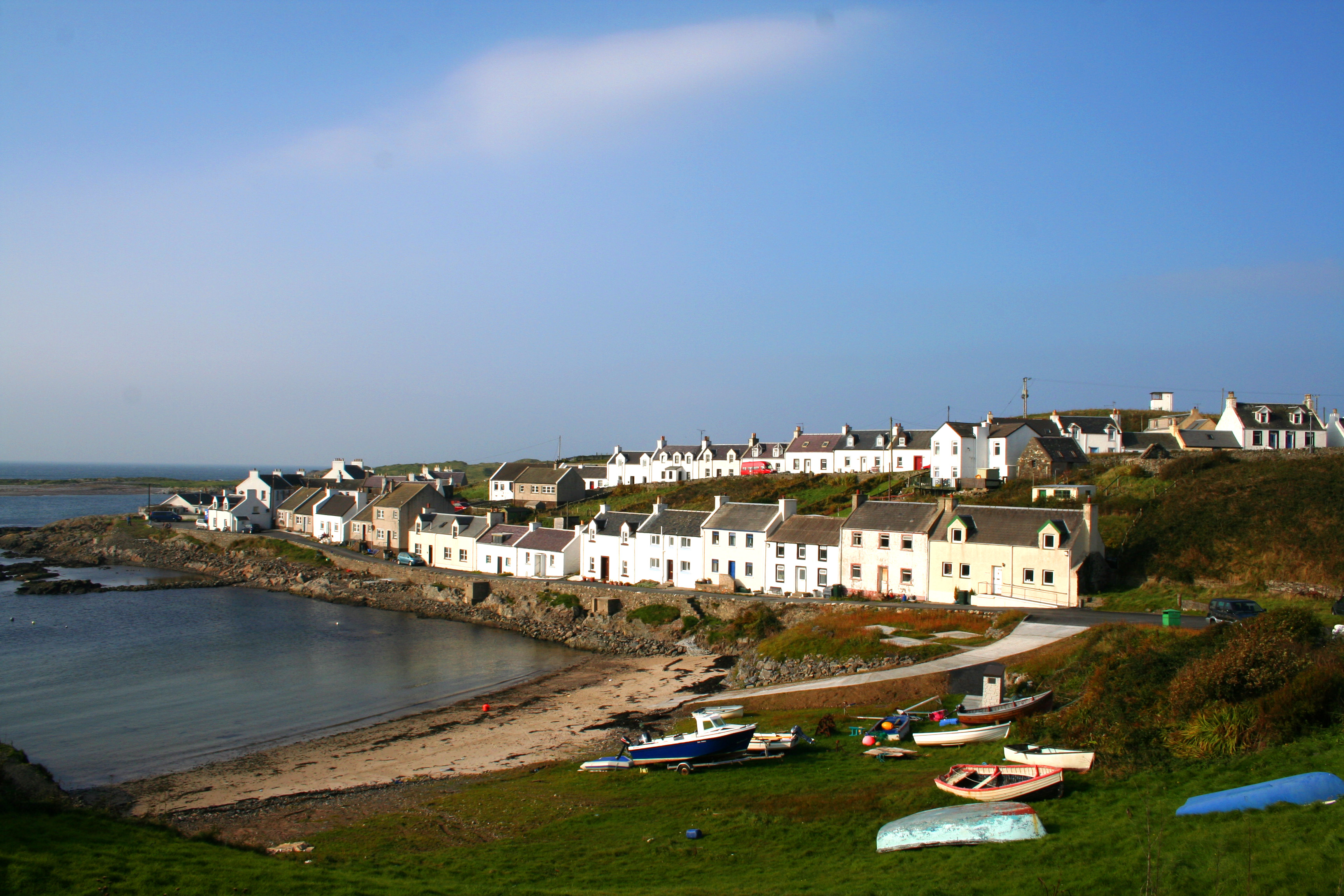 Portnahaven at the Southern end of the Rinns on Islay, Scotland